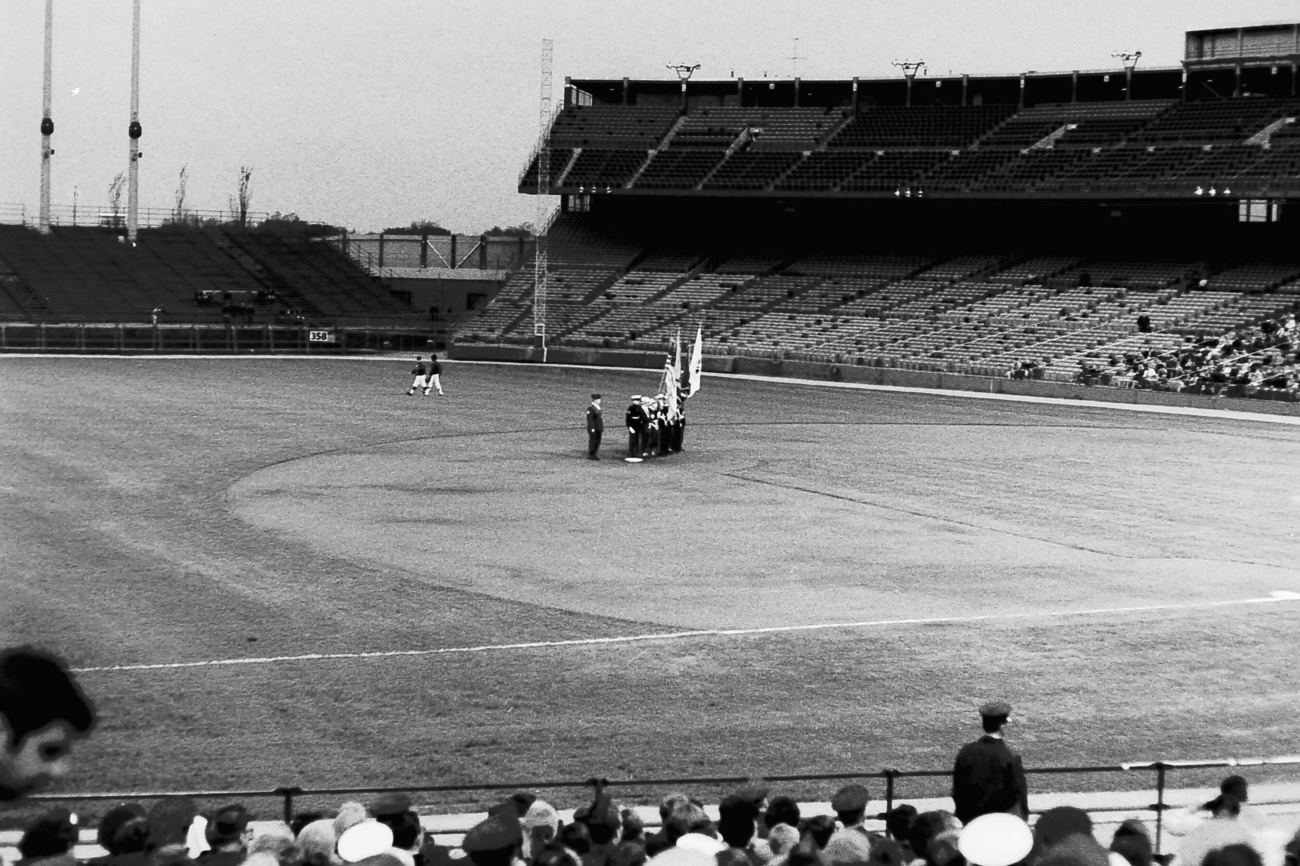 Armed Forces Day at the Twins vs. the Orioles game at Metropolitan Stadium, Minneapolis, , Minn. Photo taken spring 1972 with a Minolta SRT 101 35 mm film camera. This is from a scan of the negative.